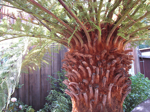 Tasmanian Fern Tree (Dicksonia antarctica)